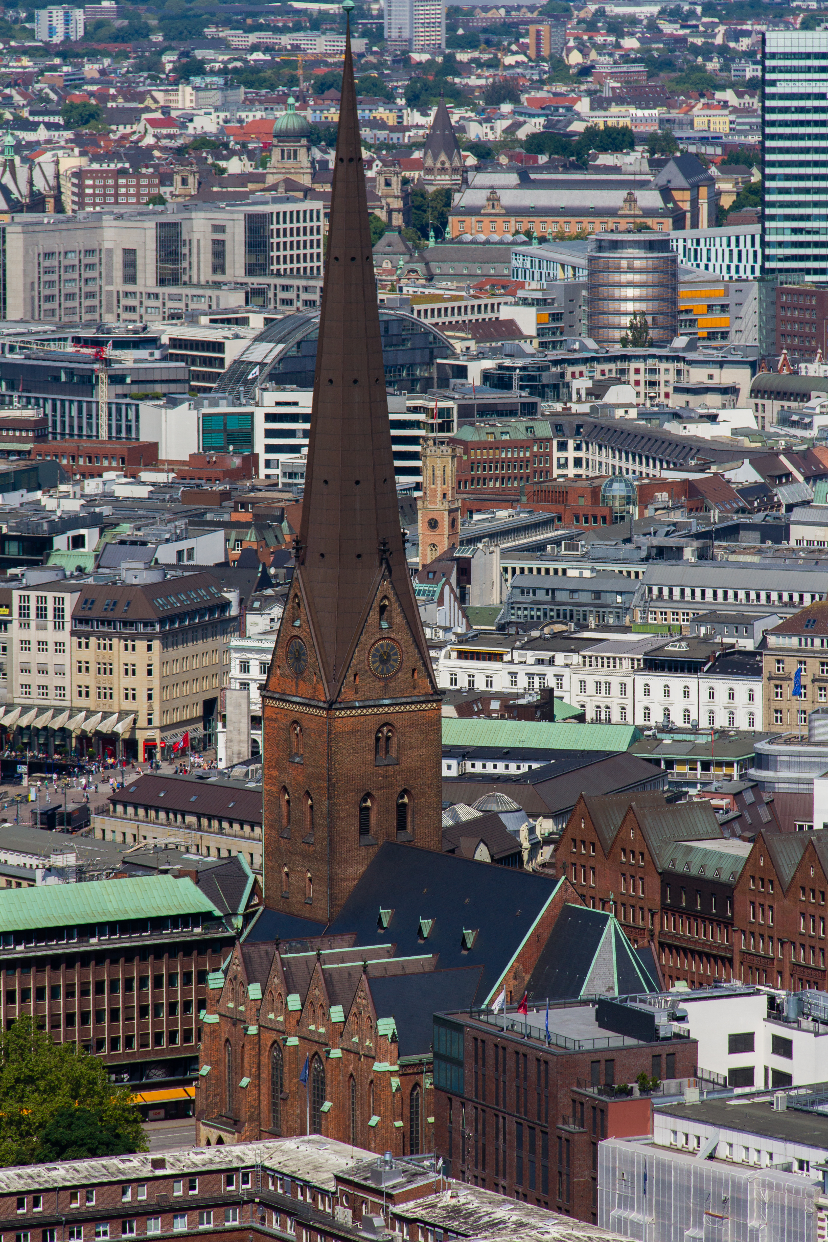 St. Peter's Church, Hamburg This is a photograph of an architectural monument.